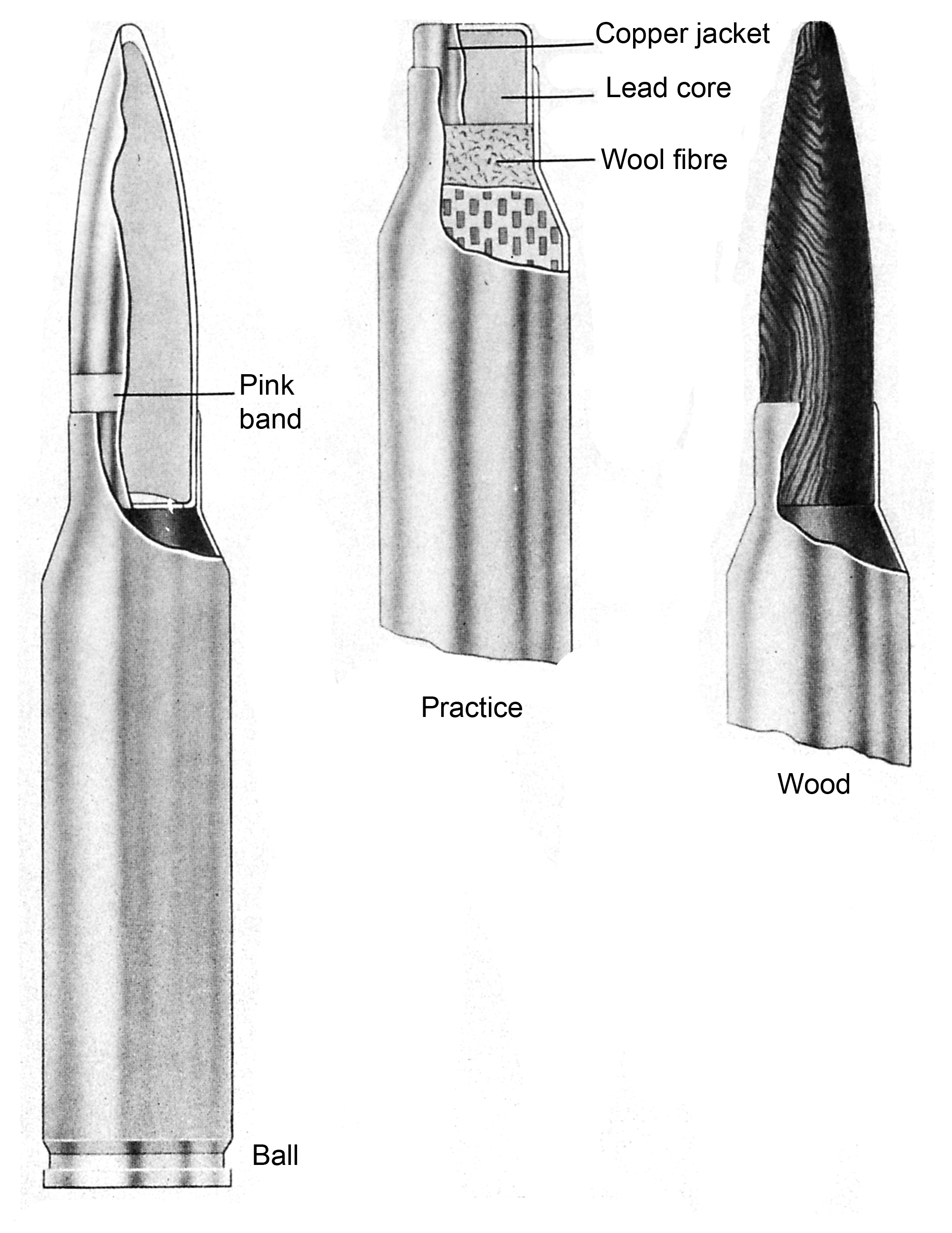 A cutaway showing a Japanese Type 38 6.5 mm rifle round fired by the Type 38, and Type 44 rifle.